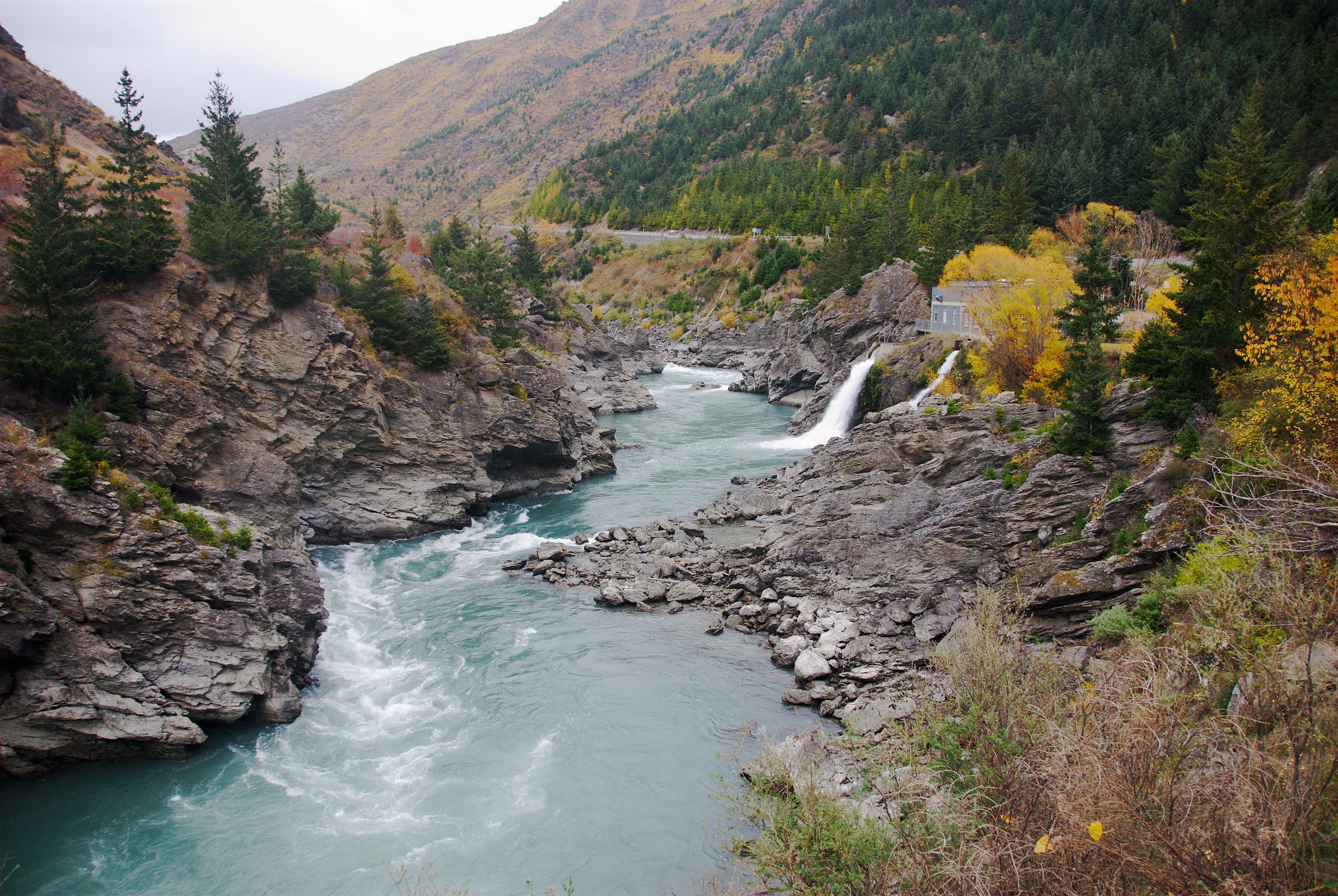 Kawarau River by the lower Roaring Meg power station, in Otago, New Zealand.